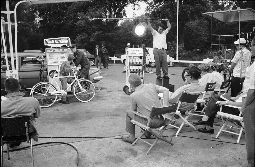 Photographer: Alexandra Studio ca. 1960 City of Toronto Archives Series 1057, Item 7857